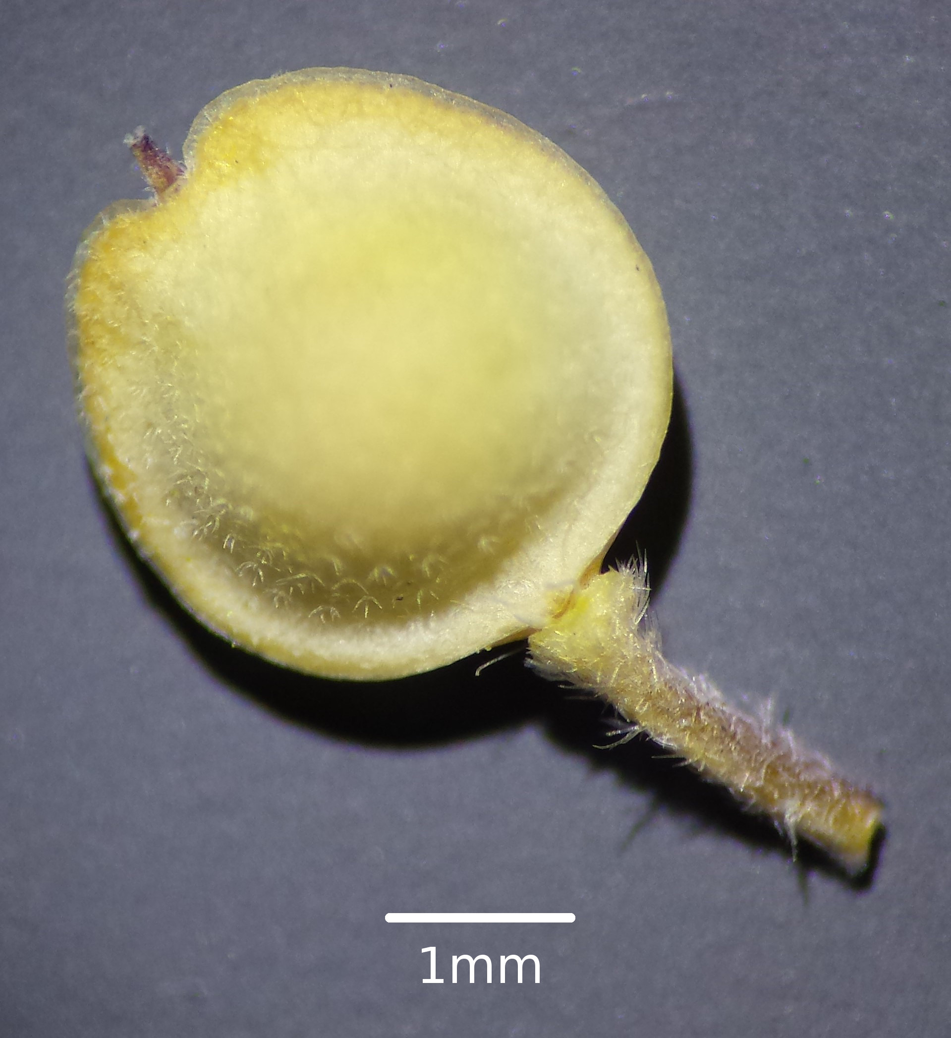 Fruit Taxon: Alyssum alyssoides (sensu Fischer et al. EfÖLS 2008) Location: New Danube, Floridsdorf, Vienna - ca. 160 m a.s.l. Habitat: ruderal area next to way on dam